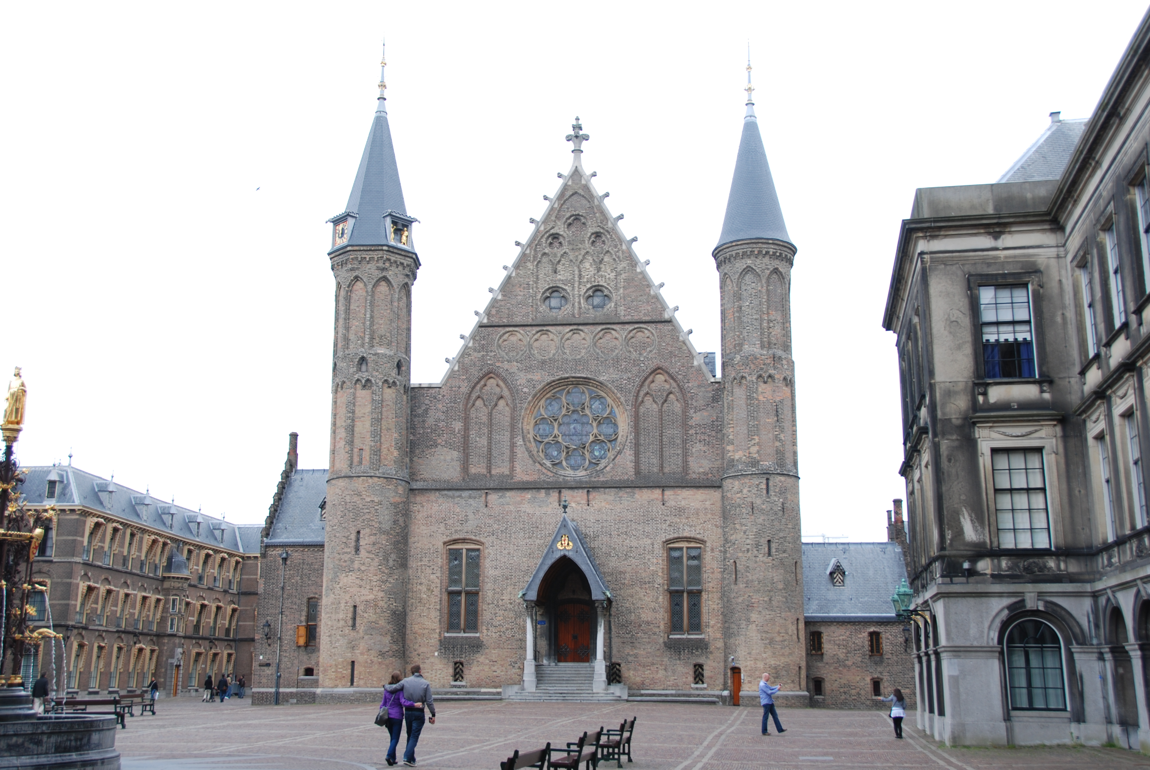 Ridderzaal in The Haage